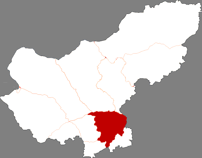 Locator map of Plain Blue Banner in Xilingol League, Inner Mongolia, China